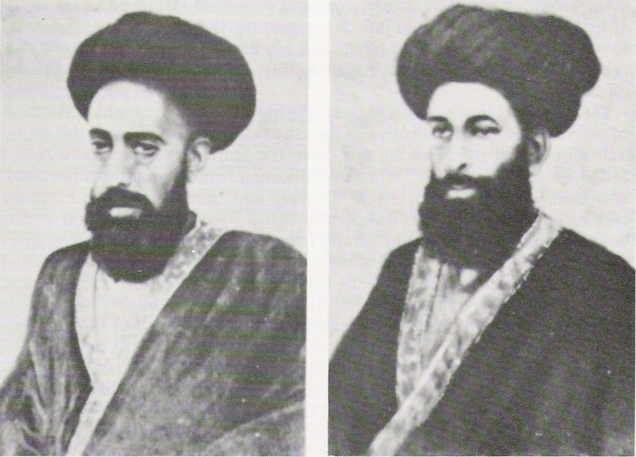 Scanned in from pg. 47 of Balyuzi, H.M. (1985) Eminent Bahá'ís in the time of Bahá'u'lláh, The Camelot Press Ltd, Southampton ISBN 0853981523 Picture is of Núrayn-i-Nayyirayn, two historical figures of the Baha'i Faith: King of Martyrs (left) and Beloved of Martyrs (right).